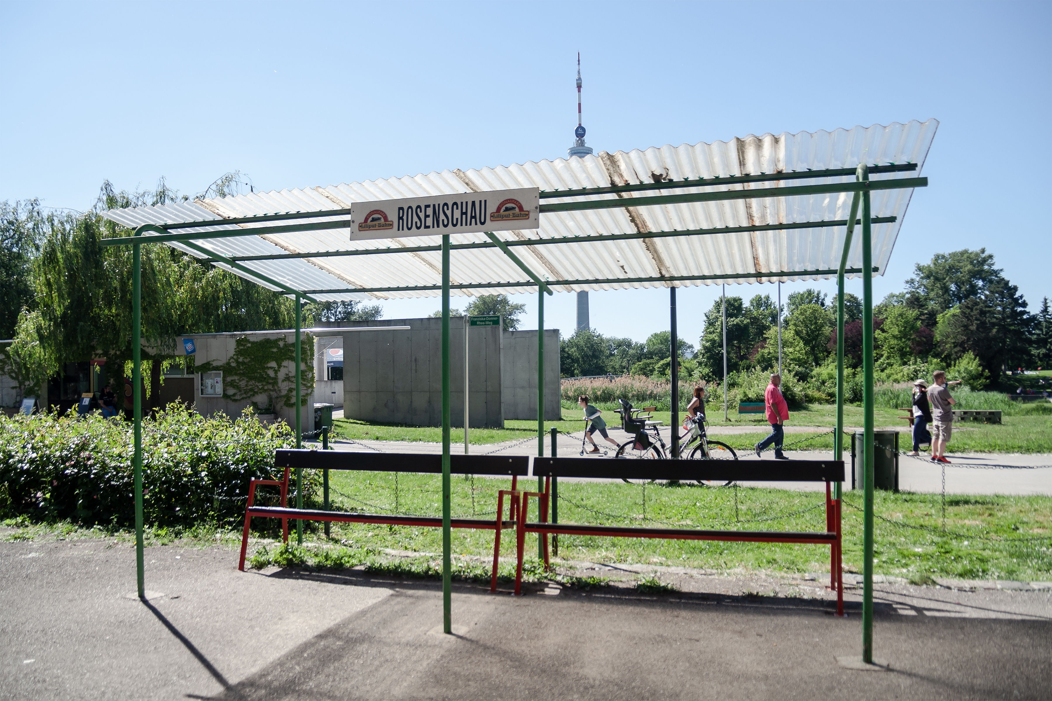 Station Rosenschau of Donauparkbahn at Donaupark in Vienna, Austria.